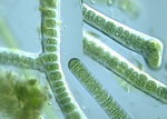 Stigonema